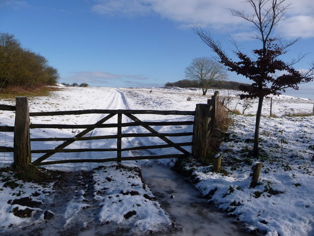 Atlas of Hillforts 3580 Shapwick: gateway to Badbury Rings A bridleway goes northeast from the B3082 across the grounds of 522846; the hill fort can be seen behind the tree on the right.